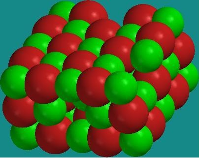 NiO surface showing cation and anion vacancies.